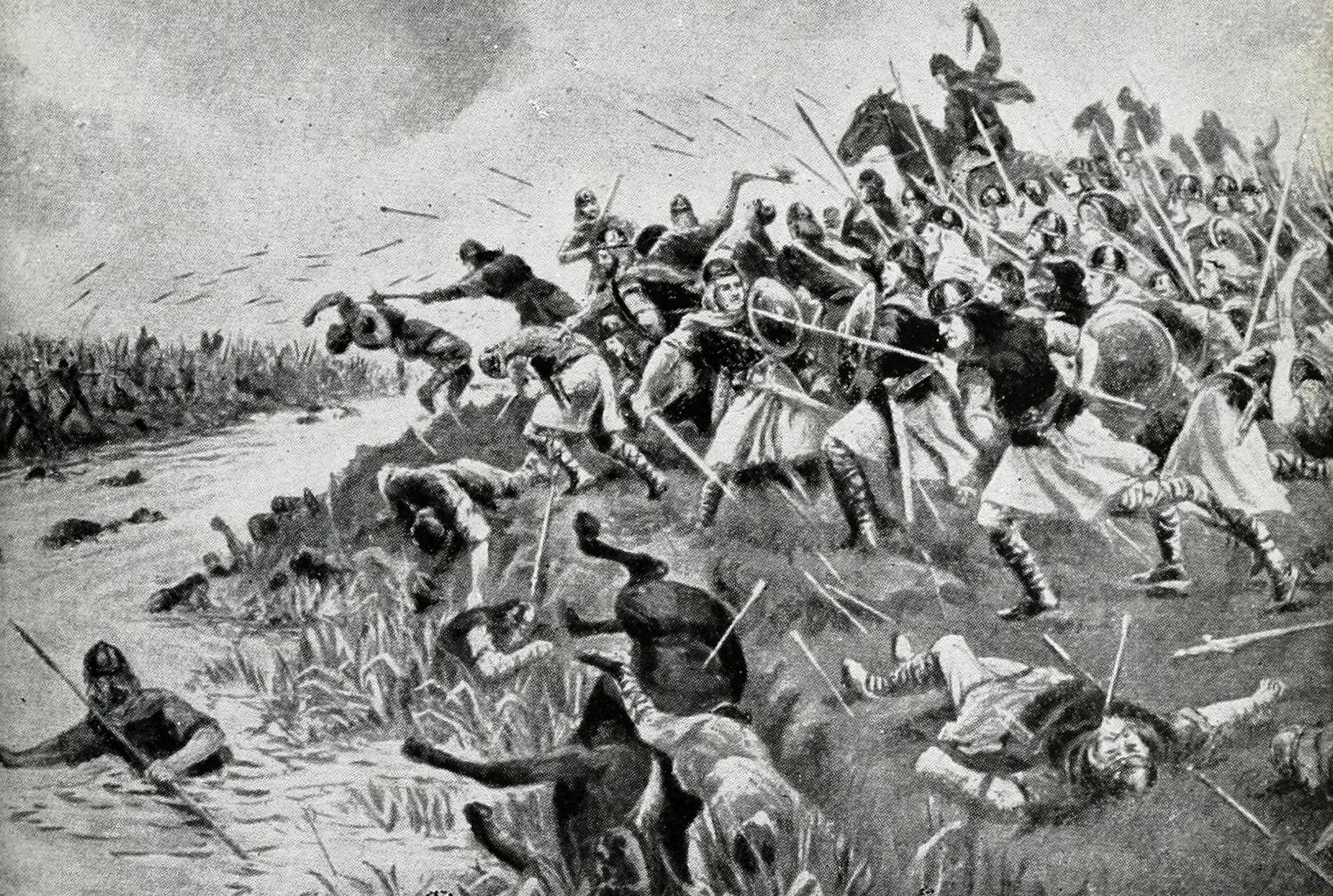 The Battle of Ellandun (825), from 'Story of the British Nations' by Walter Hutchinson